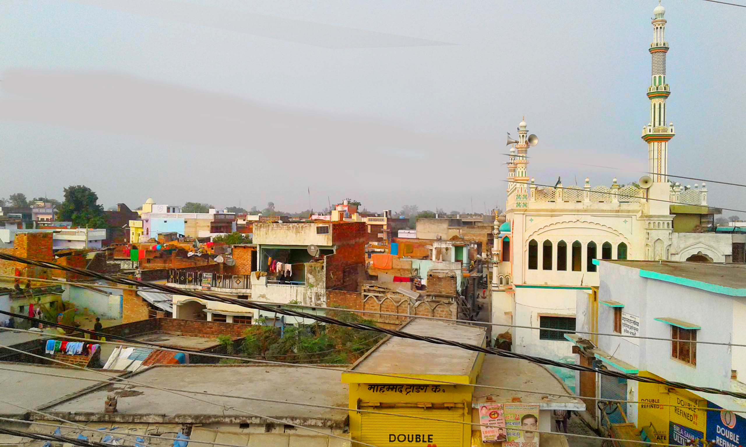 Ghosi Mohalla Tilak Nagar